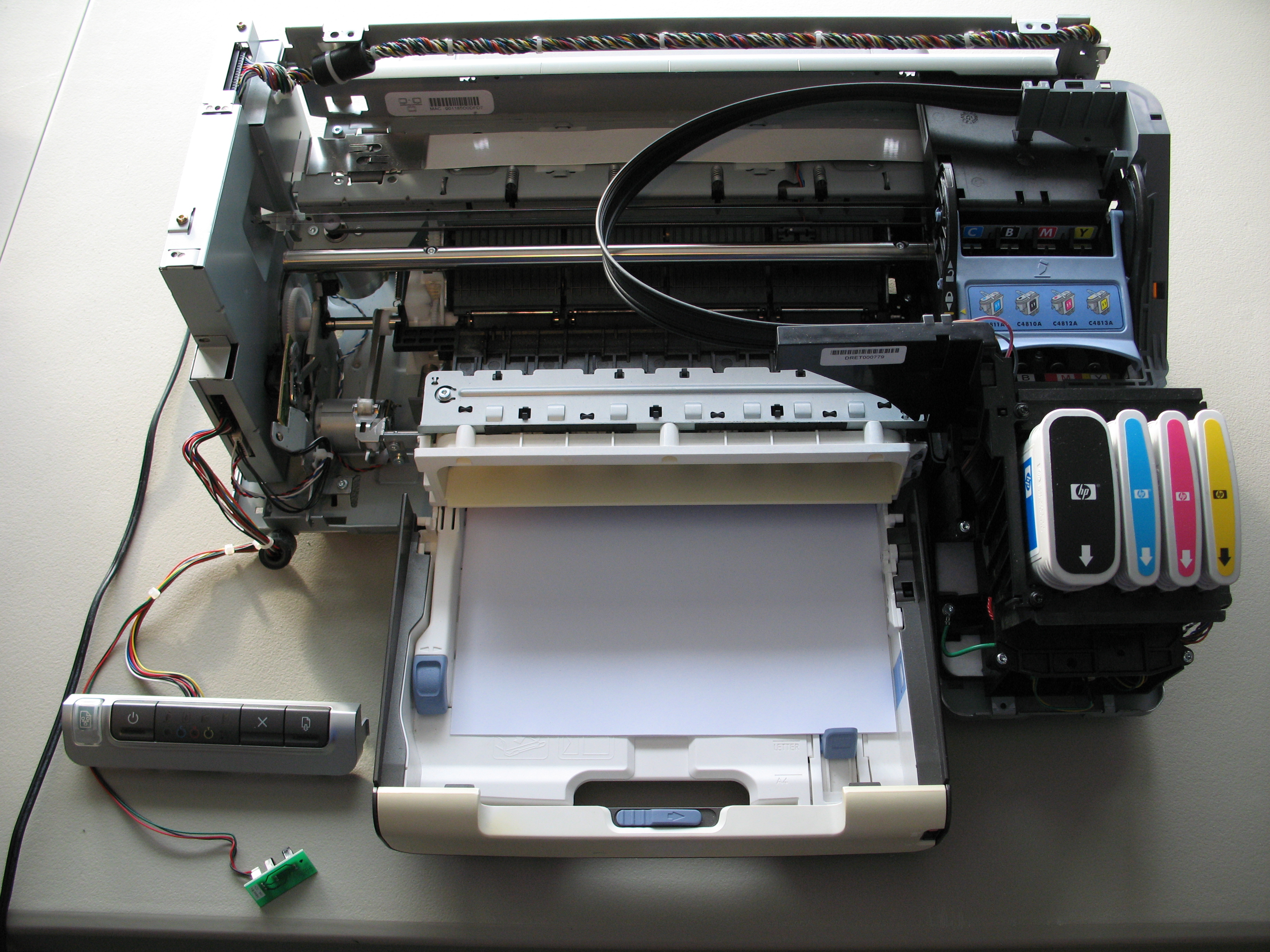 HP Business Inkjet 1200n - Continuous Ink System - Interior overview